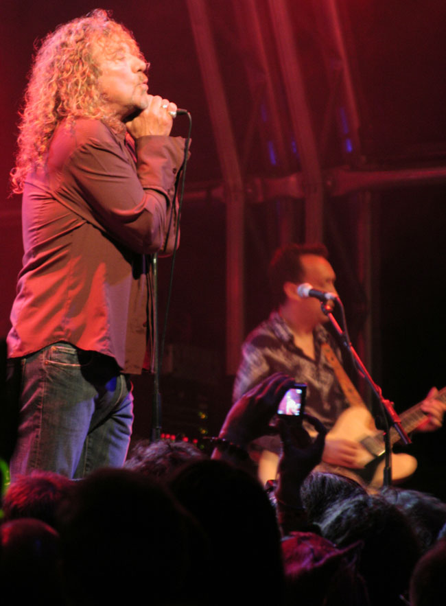 Robert Plant and the Strange Sensation performing at the Green Man Festival in August of 2007